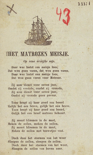 Song sheet (music sheet) with the folk song 'Daar was laatst een meisje loos'. Not dated; printed around 1900. Source: Lbl Meertens 23301, Wouters/Moormann, Meertens Instituut, Amsterdam. Online source: Het Geheugen van Nederland (